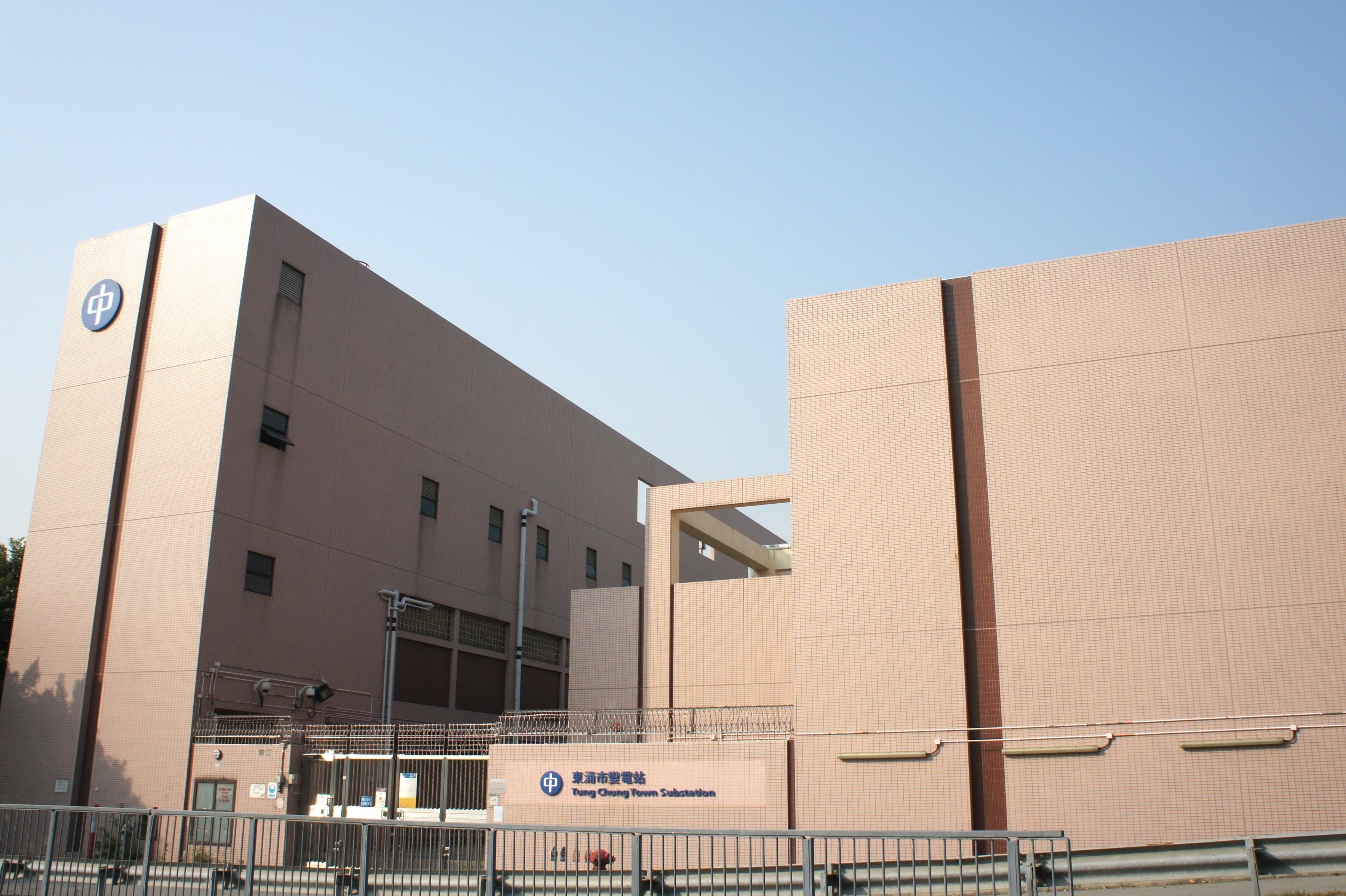 China Light and Power Co., Ltd. Tung Chung Town Substation, Lantau Island, Hong Kong.